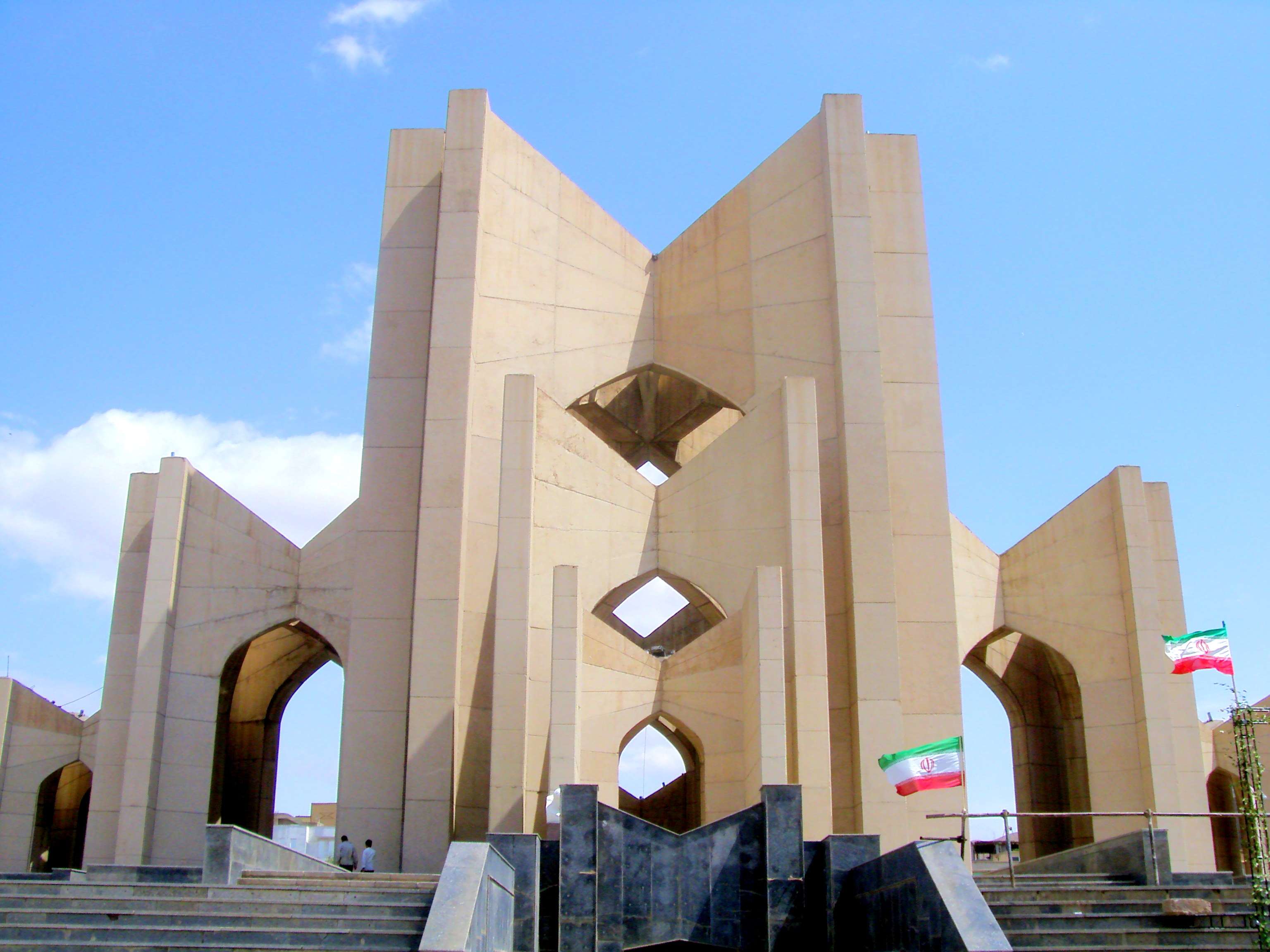 Maqbaratoshoara, Tabriz, Iran